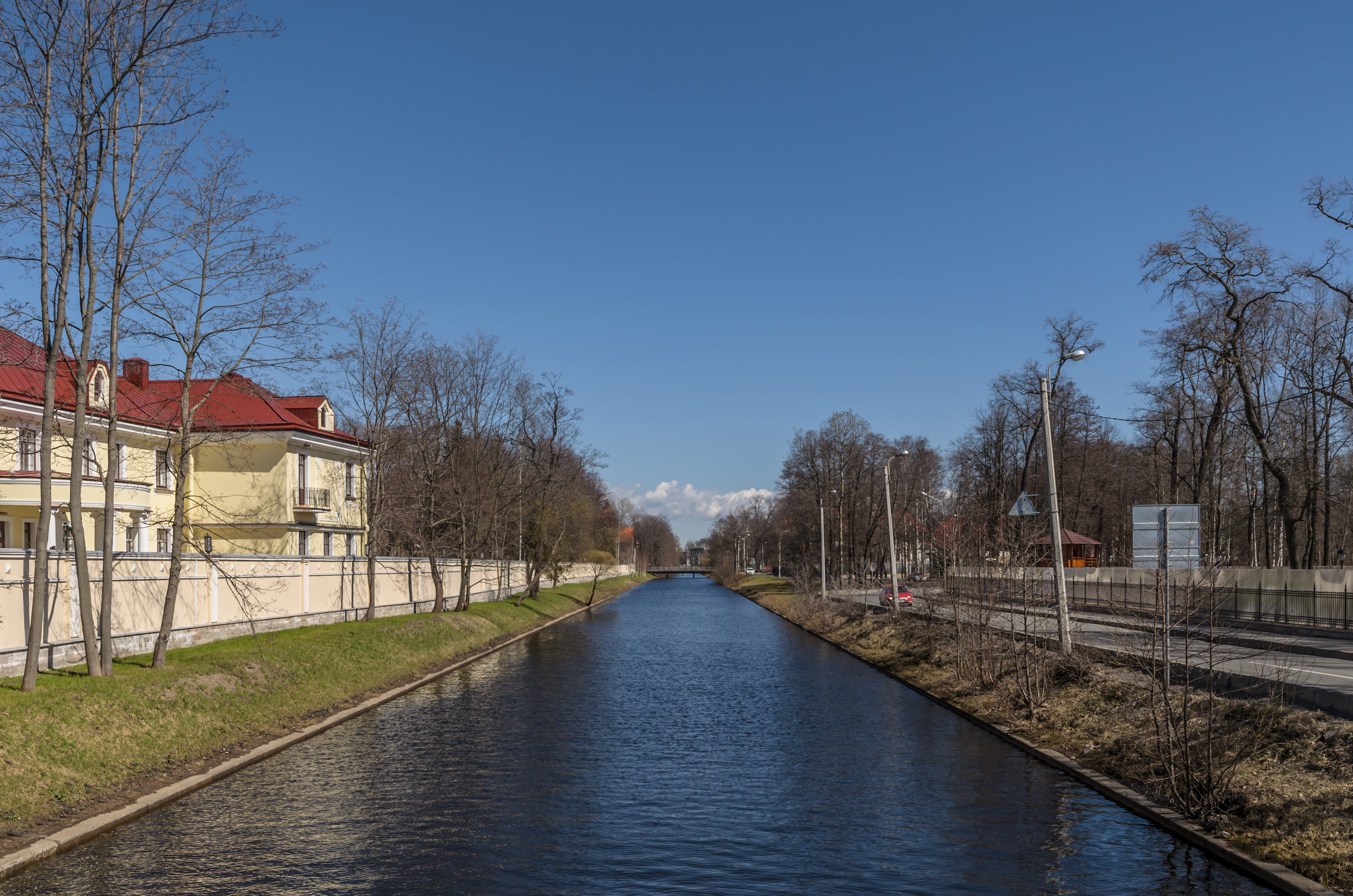 Big Channel on in Kamenny Island Saint Petersburg